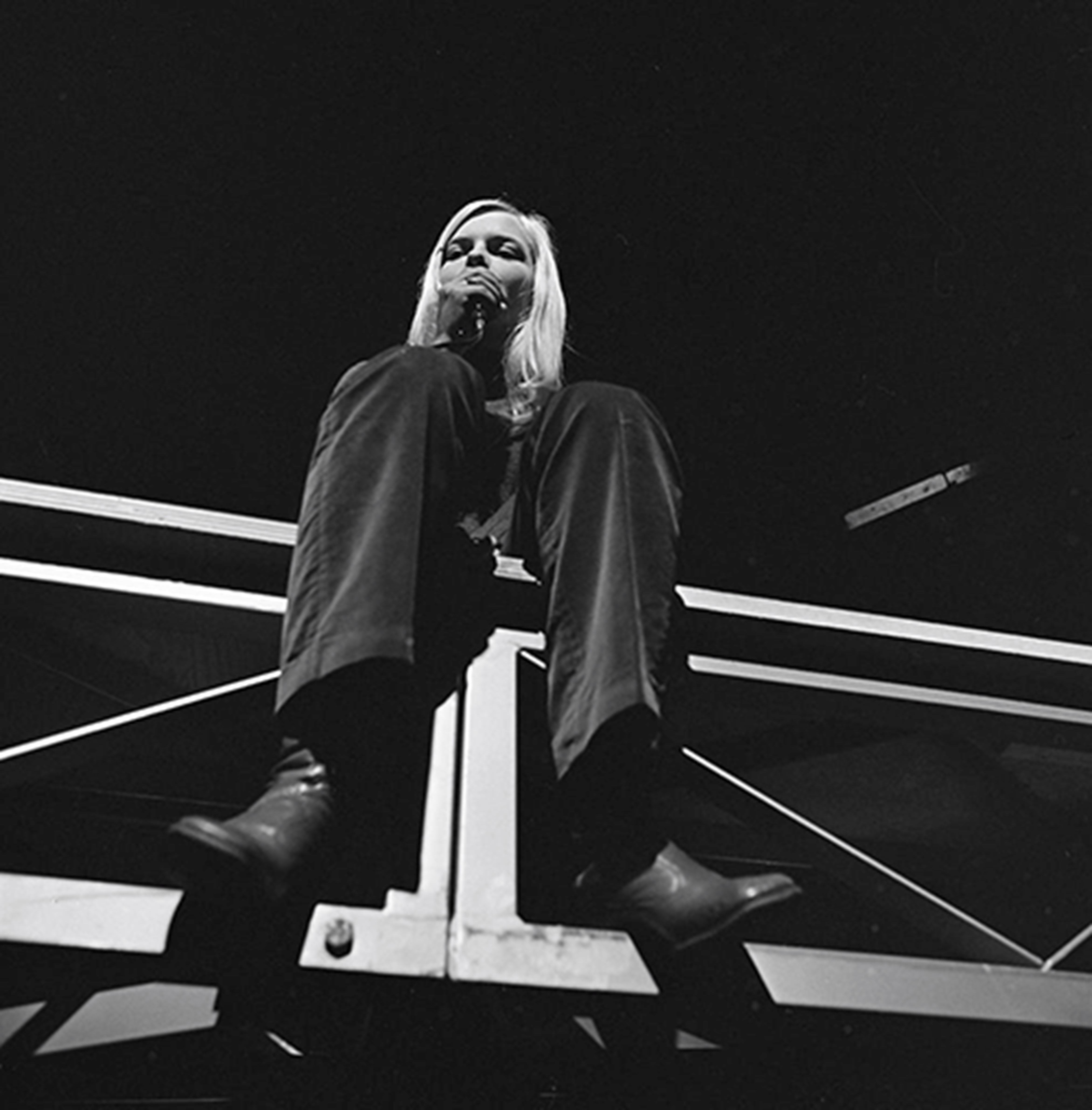 France Gall. Dutch TV programme Fenklup, 9 February 1968